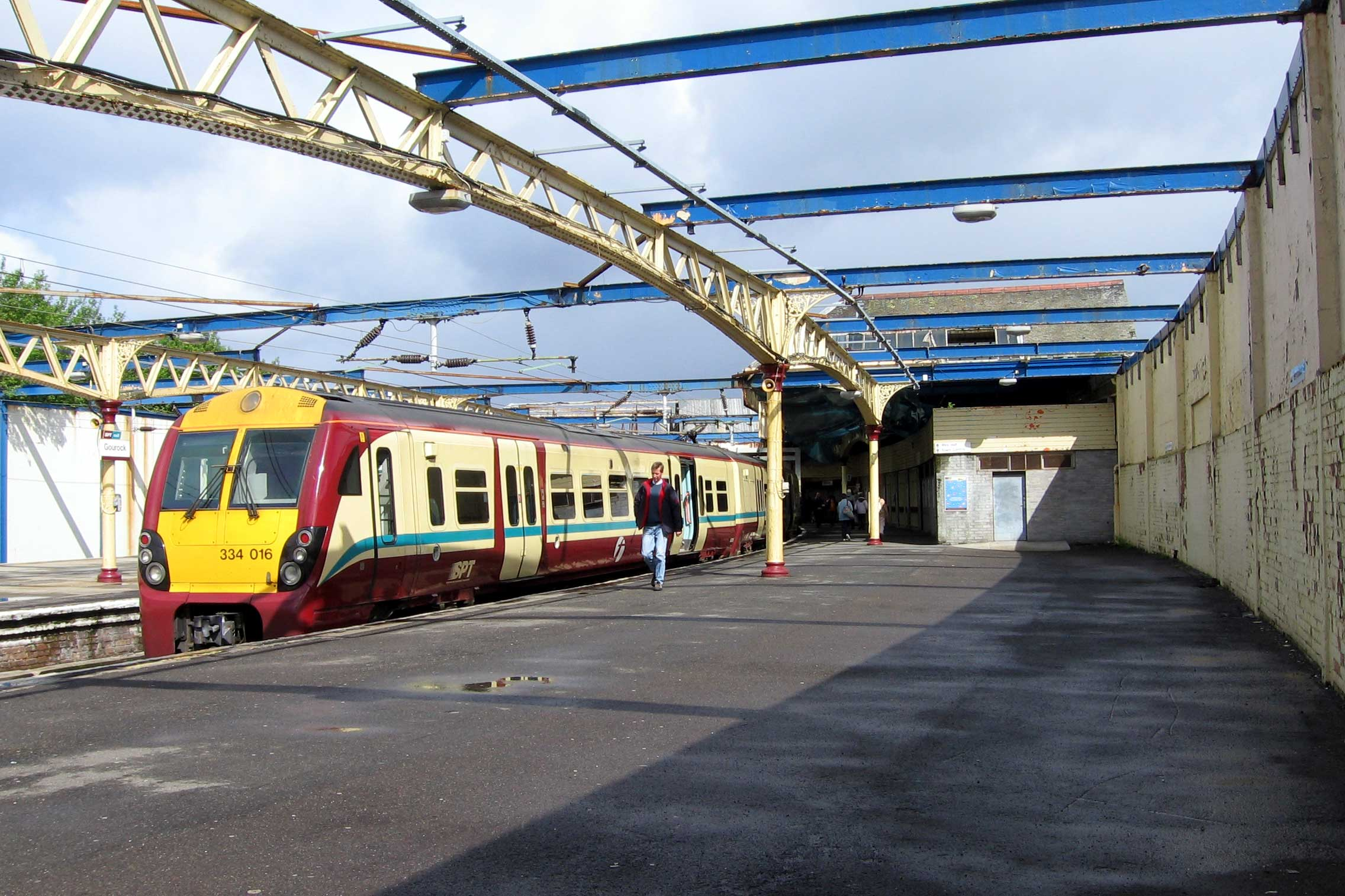 Strathclyde Partnership for Transport British Rail Class 334 train 334016 at Gourock railway station, Gourock